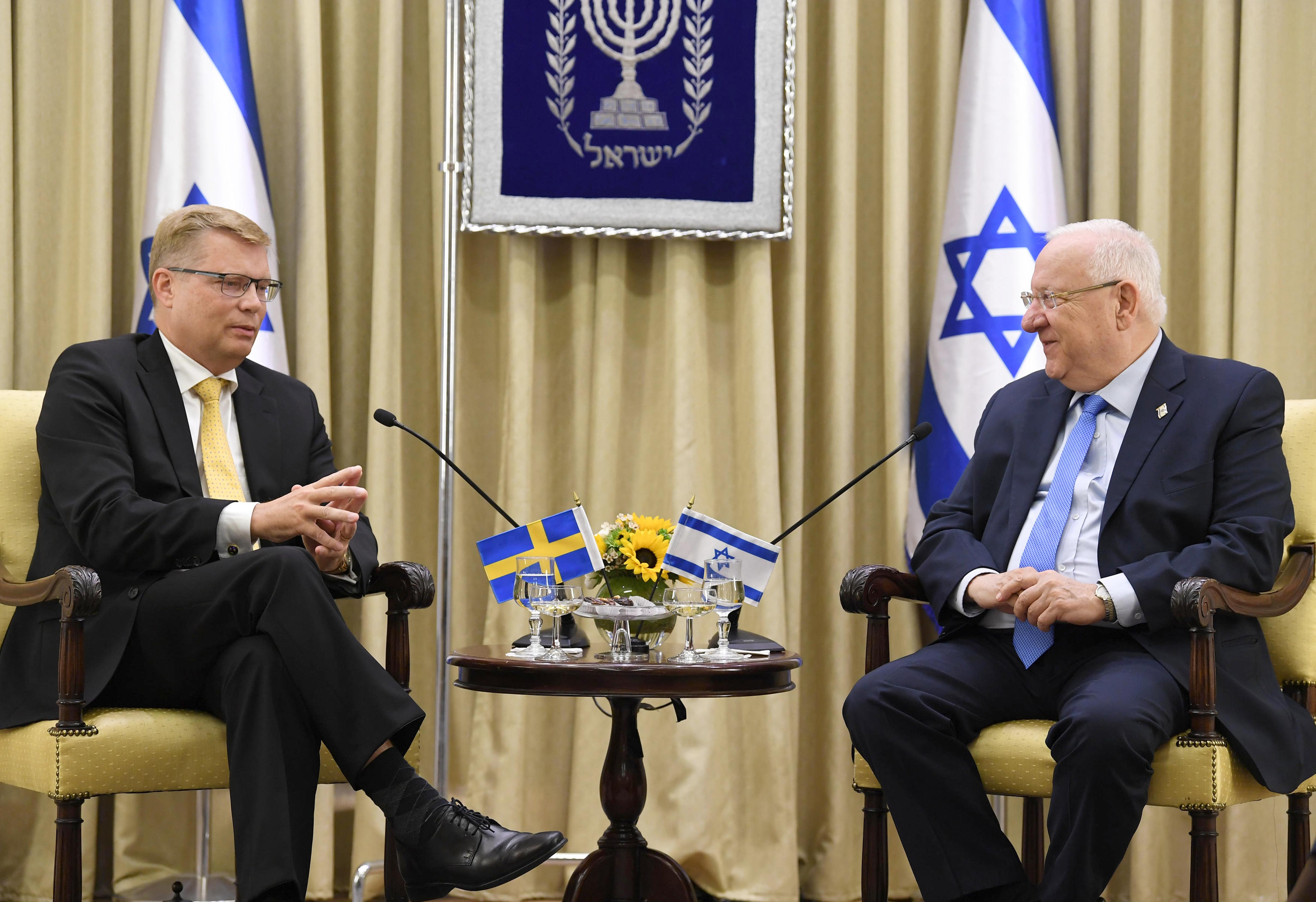 President Reuven Rivlin receives the credentials of the new ambassadors from Sweden, Portugal, Uruguay and the Vatican - upon their entry as ambassadors of their countries in Israel. Wednesday, November 29, 2017. Photo Credit: Mark Neyman / GPO.